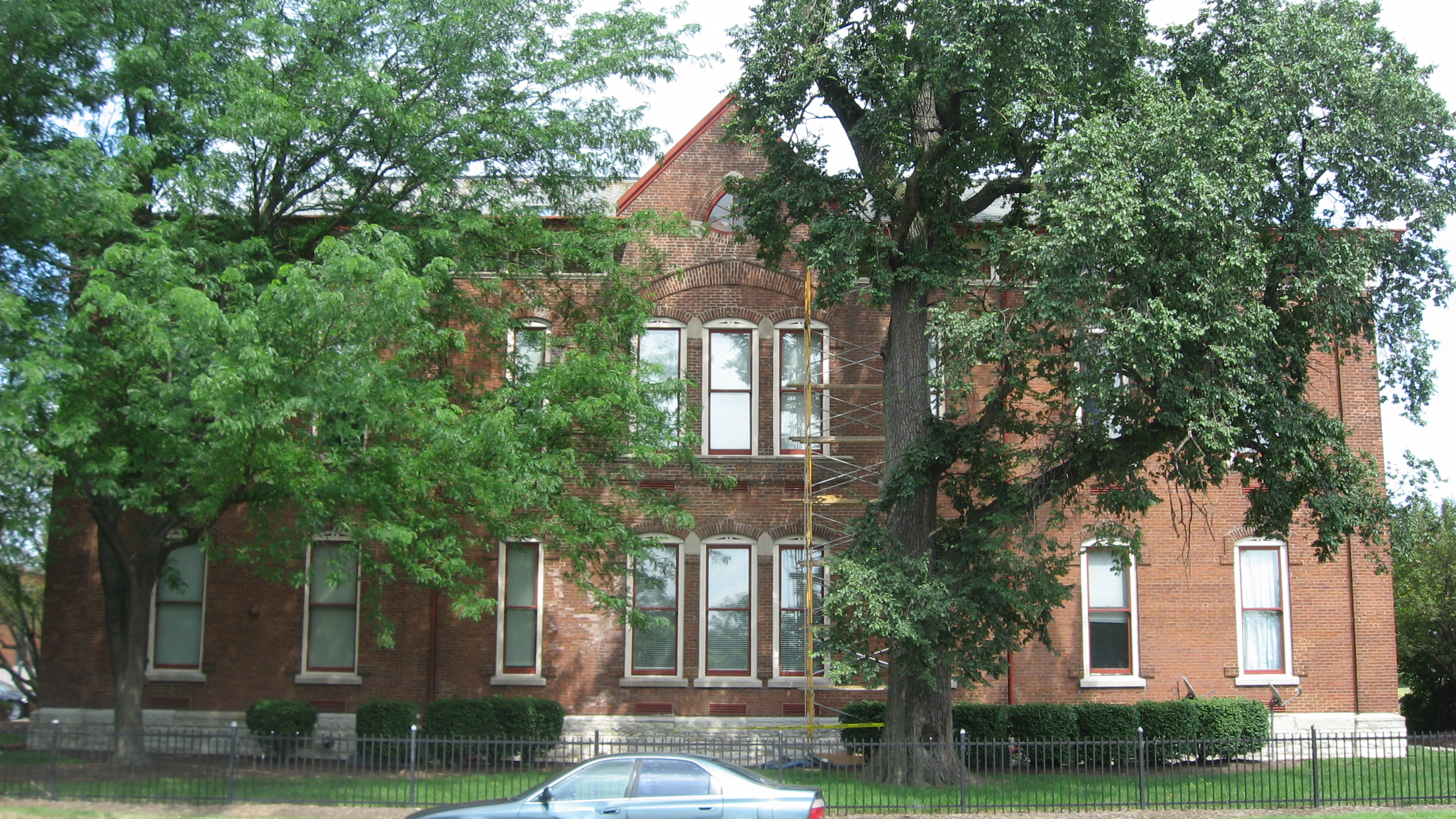 Front of the Horace Mann Public School No. 13, located at 714 E. Buchanan Street in Indianapolis, Indiana, United States. Built in 1873, it is listed on the National Register of Historic Places, and it is part of a Register-listed historic district, the Holy Rosary-Danish Church Historic District.